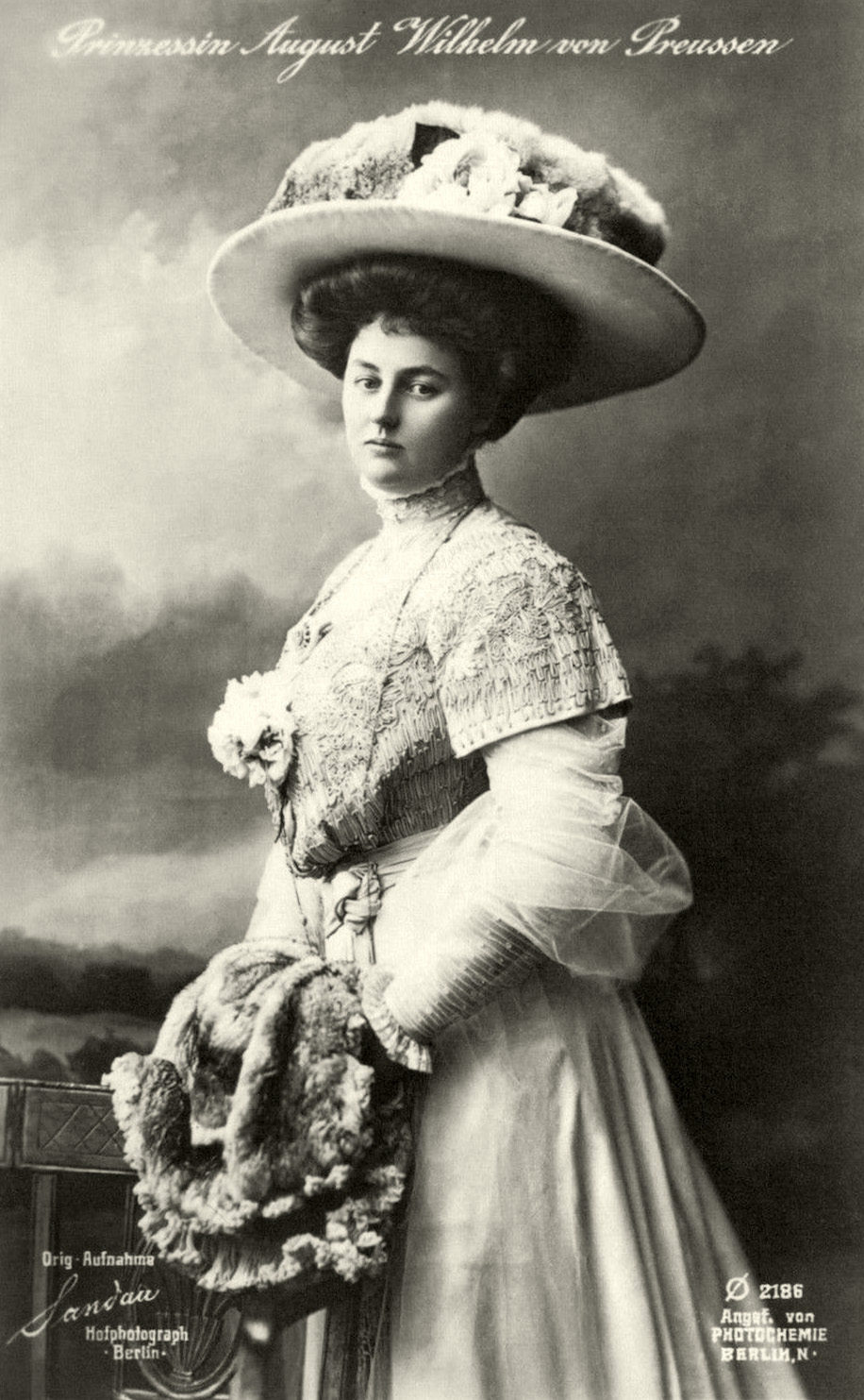 Princess Alexandra Victoria of Schleswig-Holstein-Sonderburg-Glücksburg, German postcard by Photochemie Berlin, Ø 2186